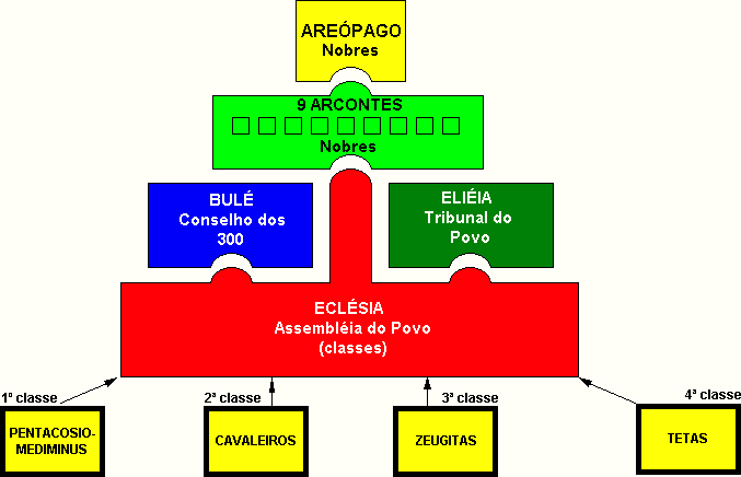 Solonian Constitution (image published in Portuguese)